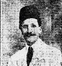 Abdolhossein Ayati, Iranian poet and Scholar.